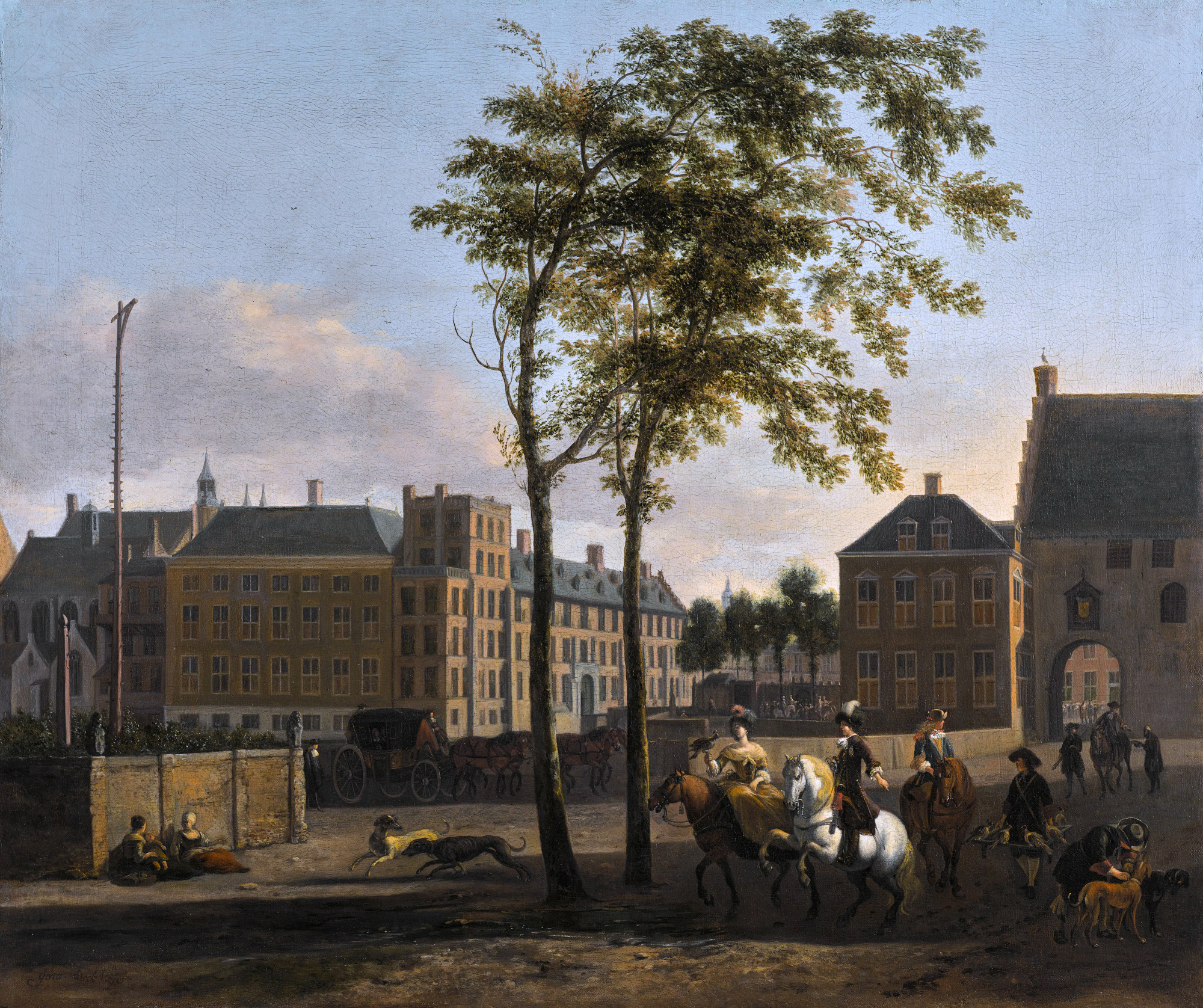 The Hague, a view of The Plaats and The Buitenhof, with an elegant hawking party